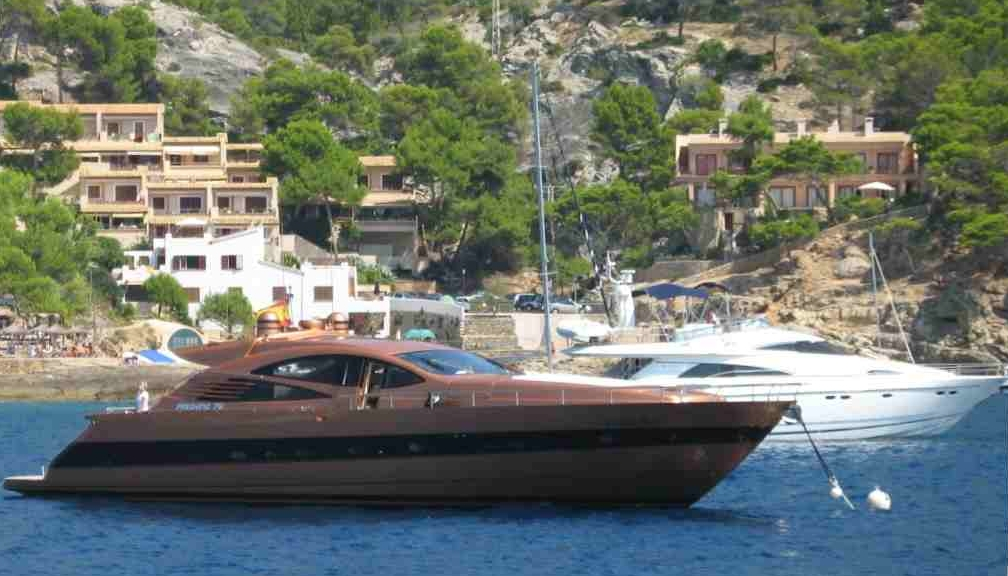 Spain, baleares, mallorca, sant elm: motor yacht "Pershing 76".